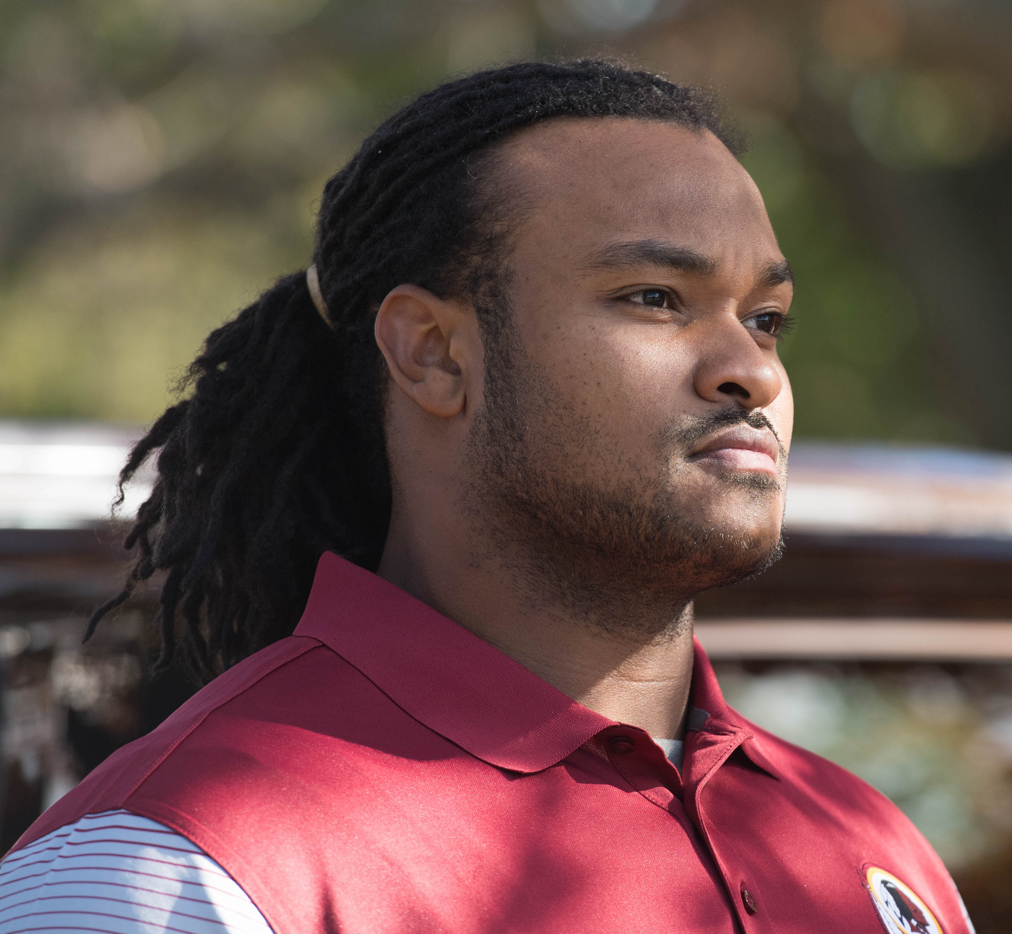 Washington Redskins defensive end, Ziggy Hood, visiting Joint Base Myer-Henderson Hall, VA on November 8, 2016.